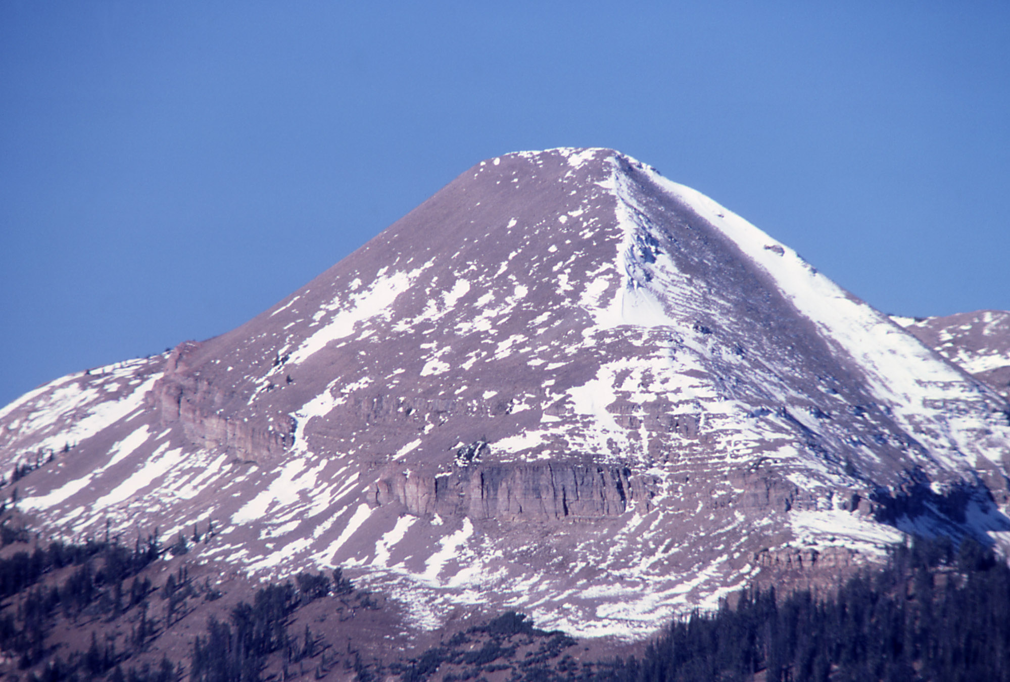 Antler Peak from the northwest, Yellowstone National Park, 1977